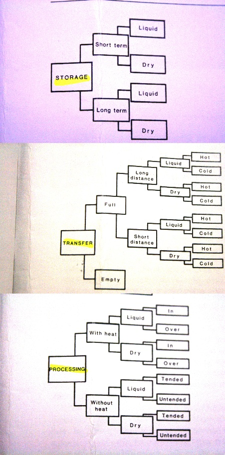 Determining vessel function